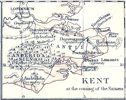 Map of "Kent at the coming of the Saxons"